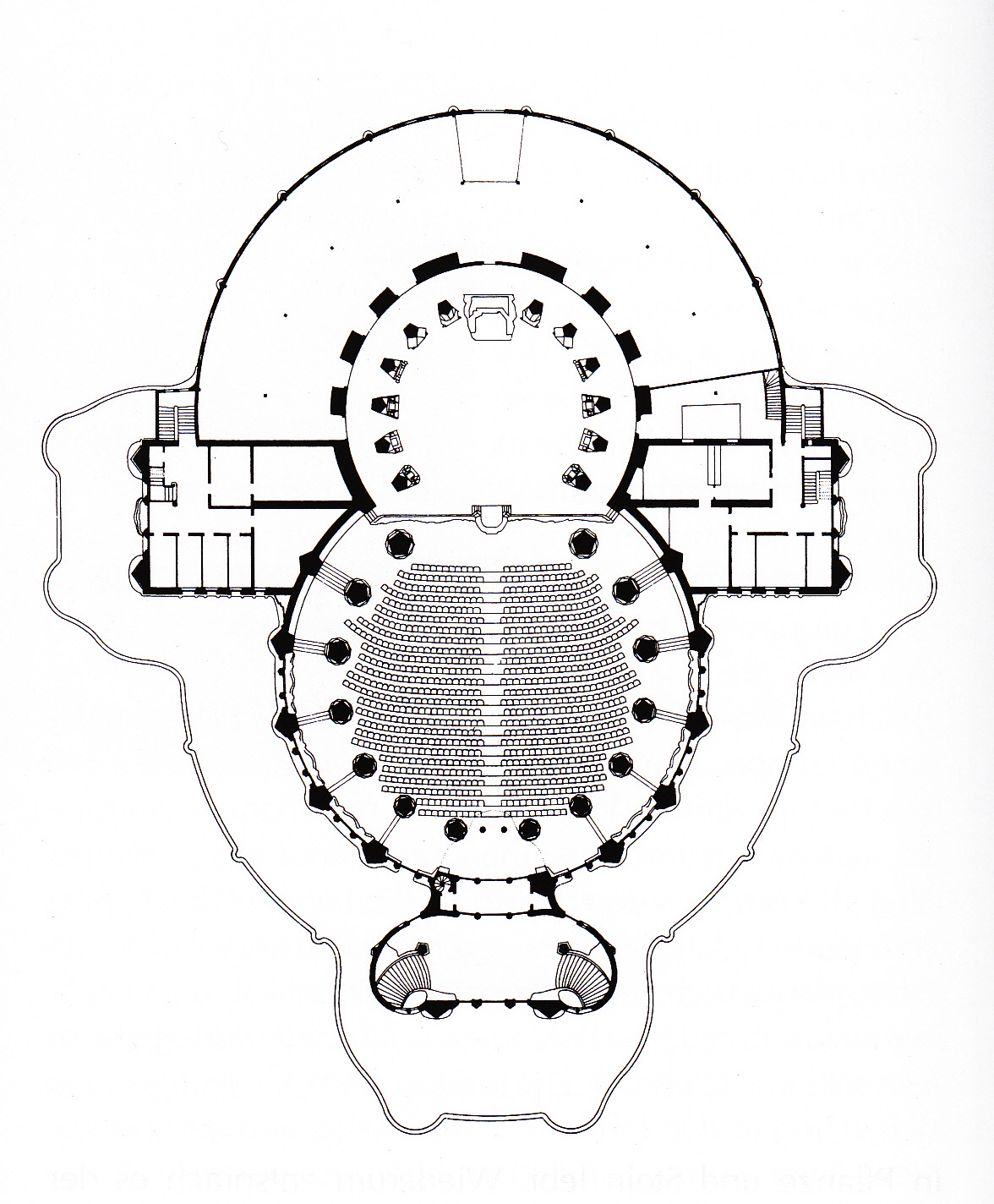 Footprint of the hall storey of the first Goetheanum, about 900 seats